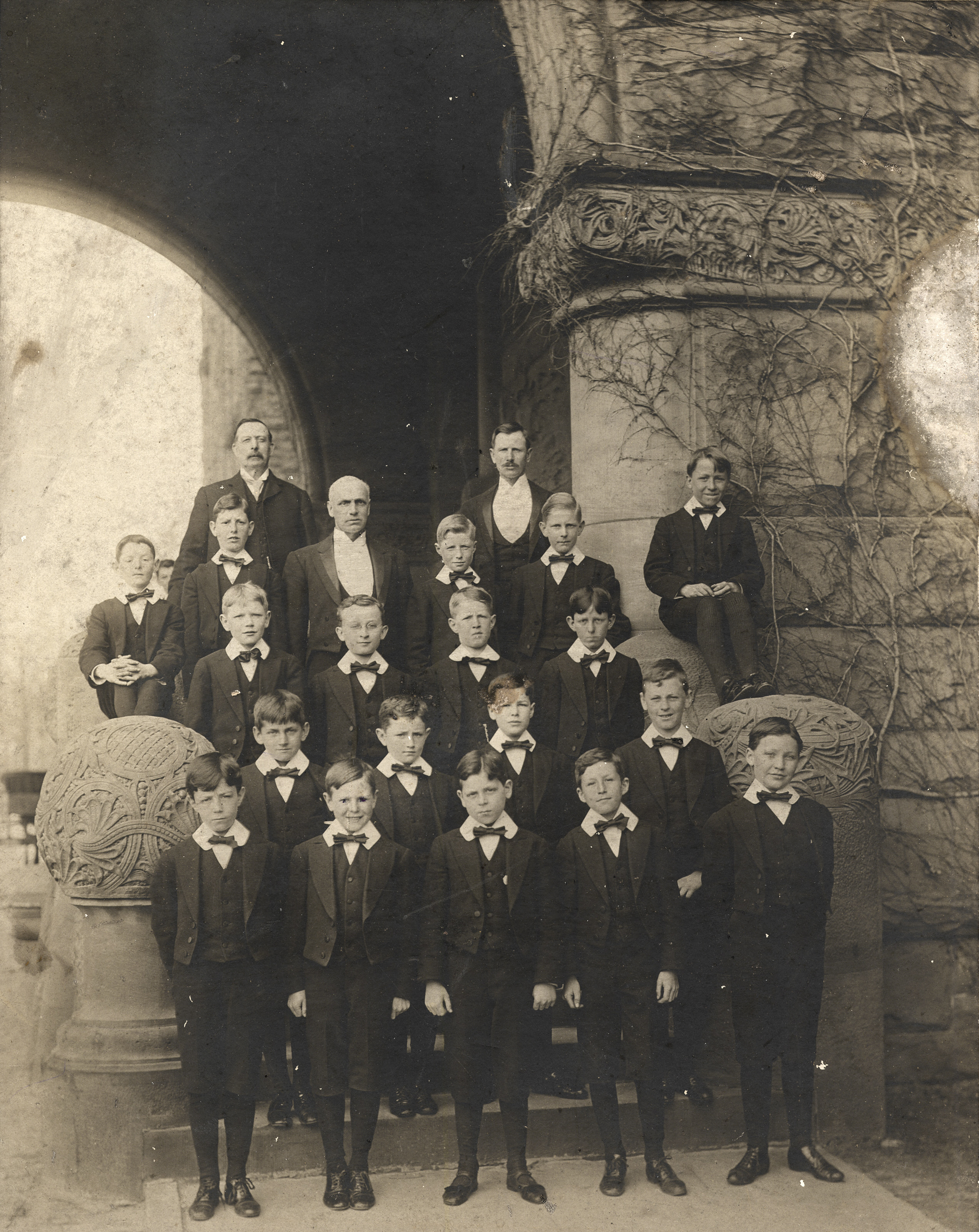 A group of legislative pages at the Legislative Assembly of Ontario building, Toronto, Canada.